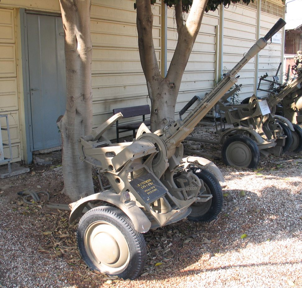 Description: Soviet ZPU-1 14.5 mm air defence cannon in Batey ha-Osef Museum, Tel Aviv, Israel. Source: Photo by me, User:Bukvoed.